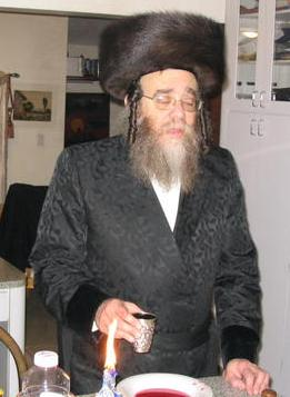 Grand Rabbi Judah Wolff Kornreich, the Shidlovtzer Rebbe of Jerusalem, reciting the Havdalah prayers during his visit to Miami, Florida in November, 2005.